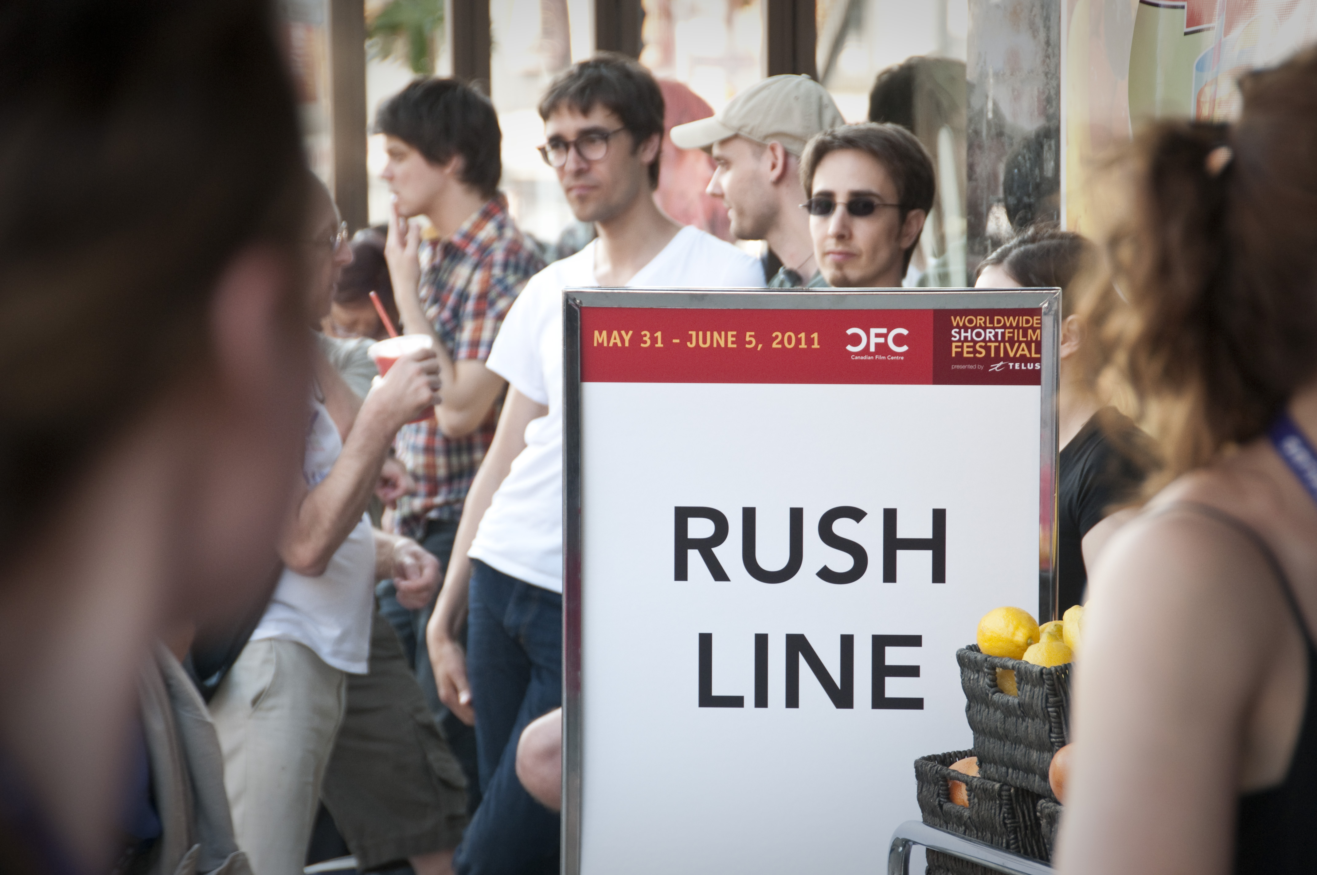 Opening Night Screening was the Hot Ticket of the evening! Taking place May 31- June 5, 2011, in downtown Toronto, the CFC Worldwide Short Film Festival showcases specially-themed 90-minute programs, with each program offering from 5-22 films -- all for $10 a ticket! Photo by: David Lee